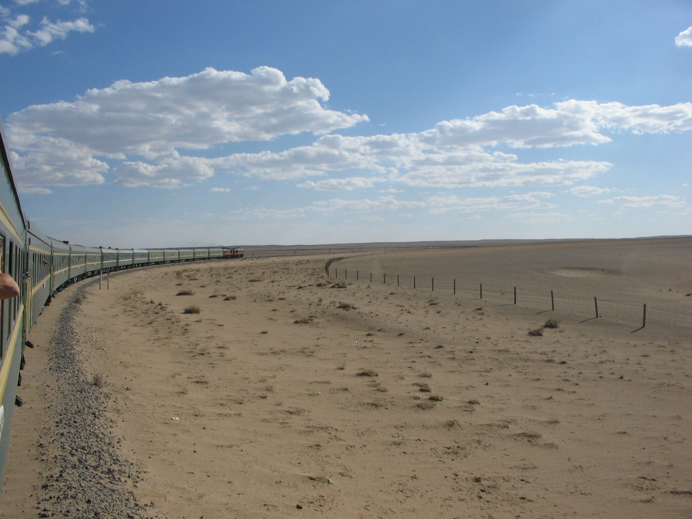 The transmongolian Railroad crosses the Gobi Desert.